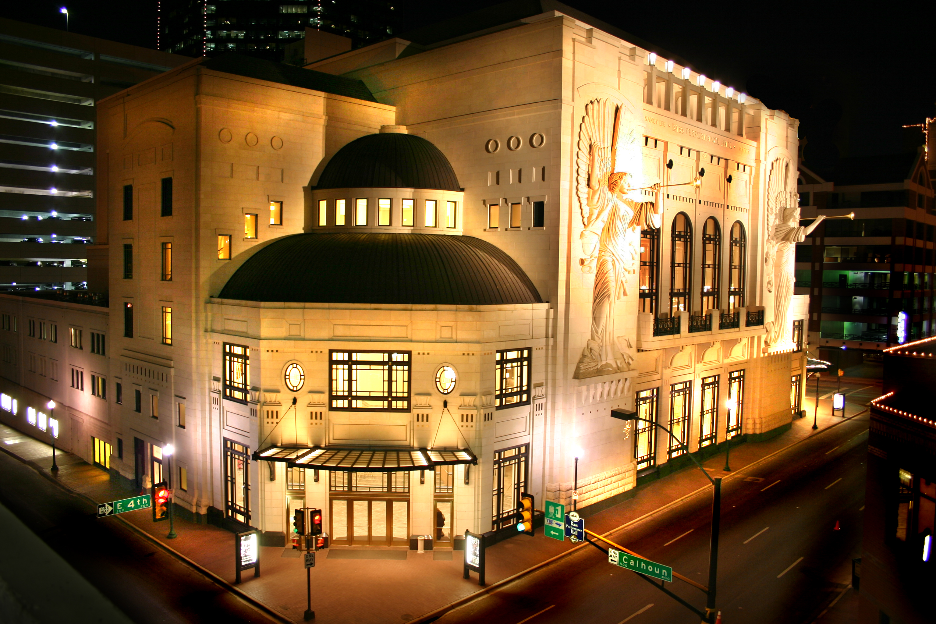 Roger Scott - Bass Hall / 2005.1.24